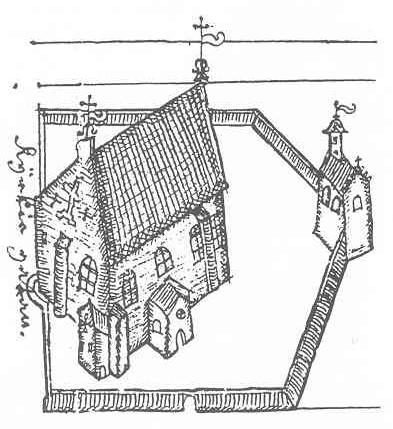 Vyborg Cathedral in 1642